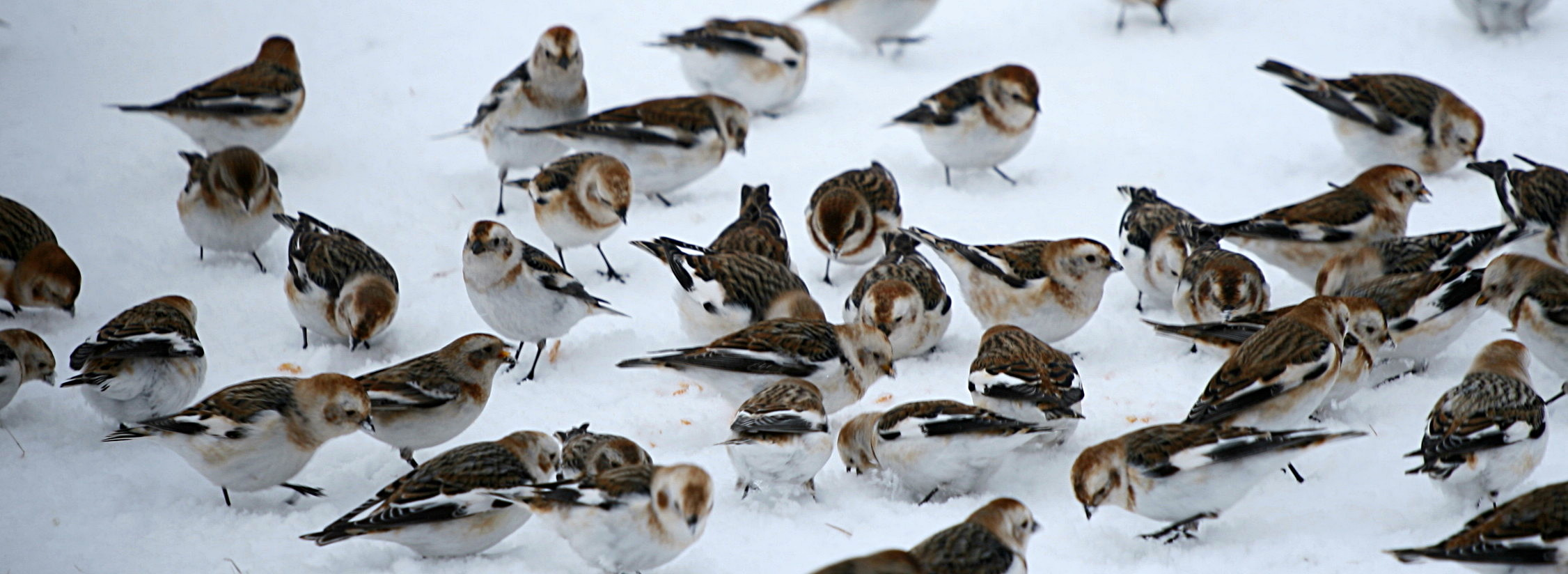 snjótittlingar- Plectrophenax nivalis - Snow Buntings